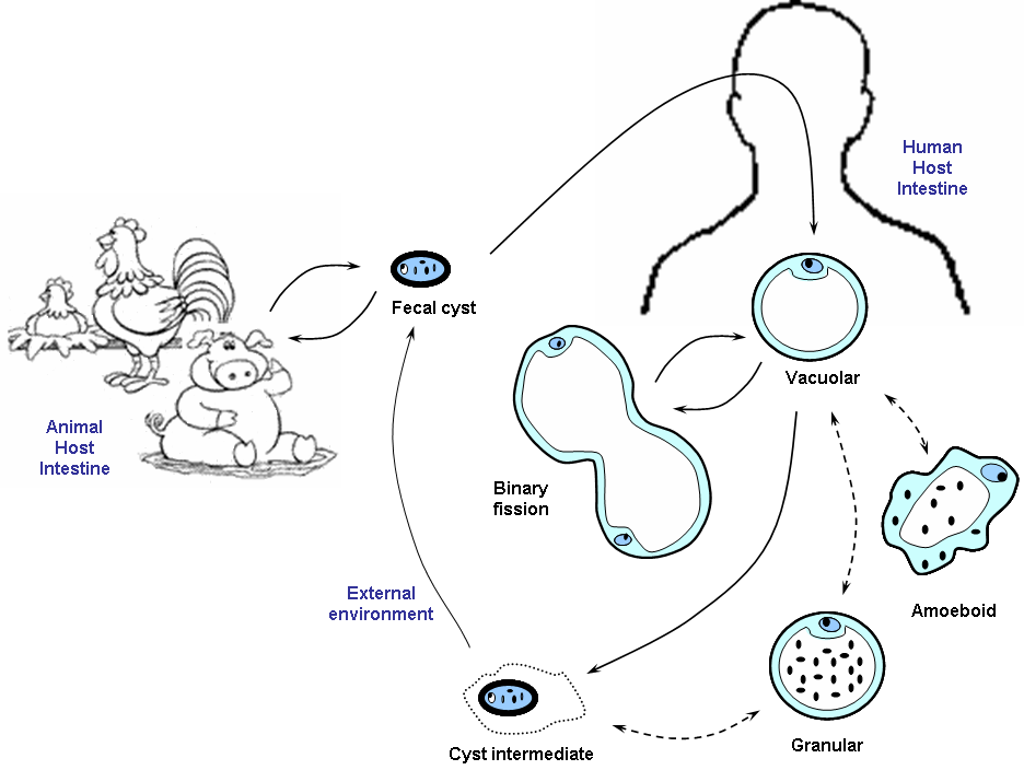 Image shows the life cycle of Blastocystis.